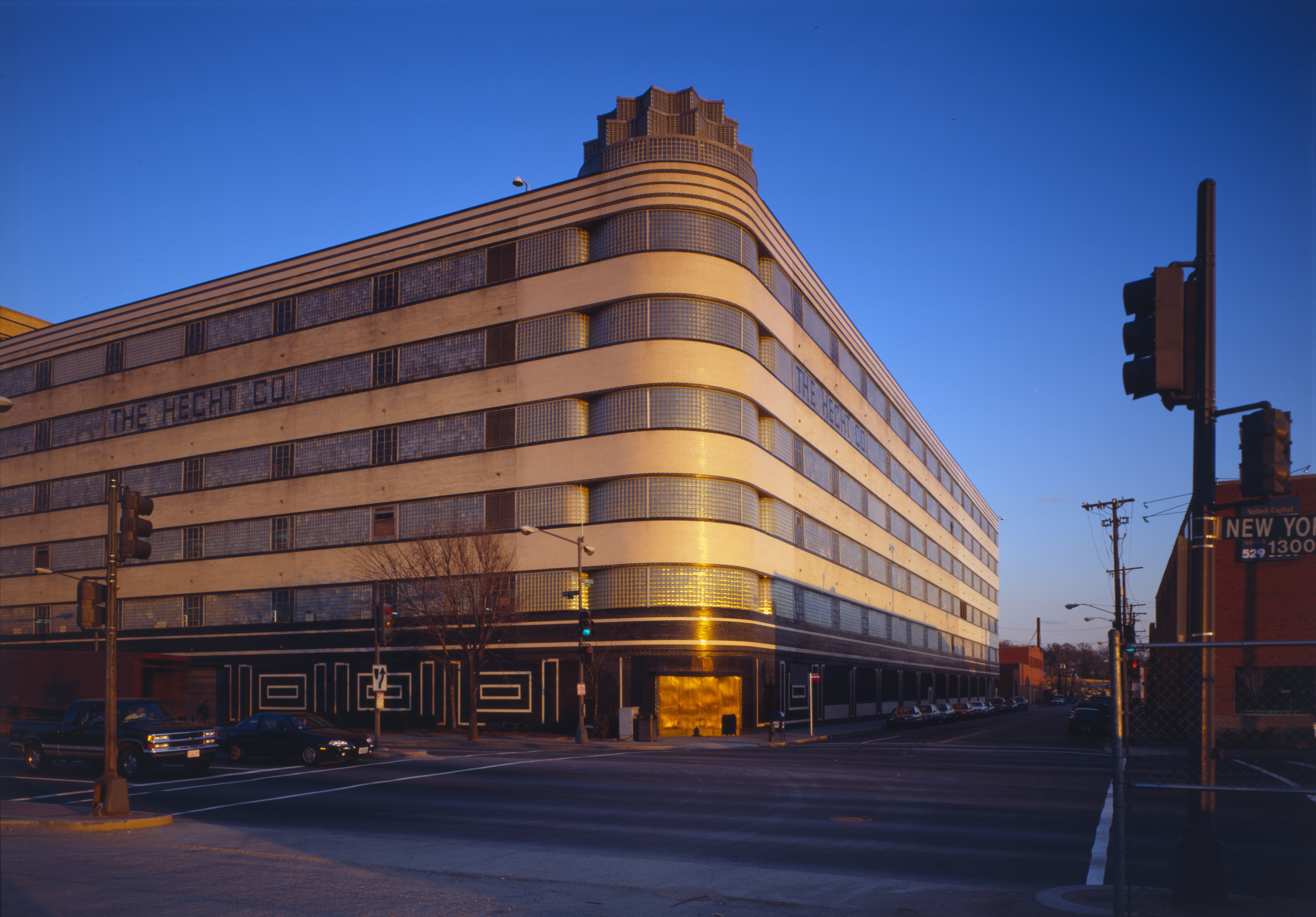 View of building exterior at intersection of 1300 New York Avenue NE - Hecht's Company Warehouse, 1401 New York Avenue NE, Washington, D.C., in the United States.